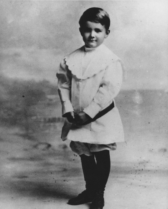 Catalog #: BIOH00422 Last Name: Hughes First Name: Howard Notes: Repository: San Diego Air and Space Museum Archive